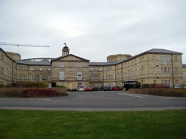 Parklands Manor The main H block of the former Stanley Royd hospital. An east and west wing were added at a later date. These buildings have been converted into luxury apartments, and the site is now known as Parklands Manor.